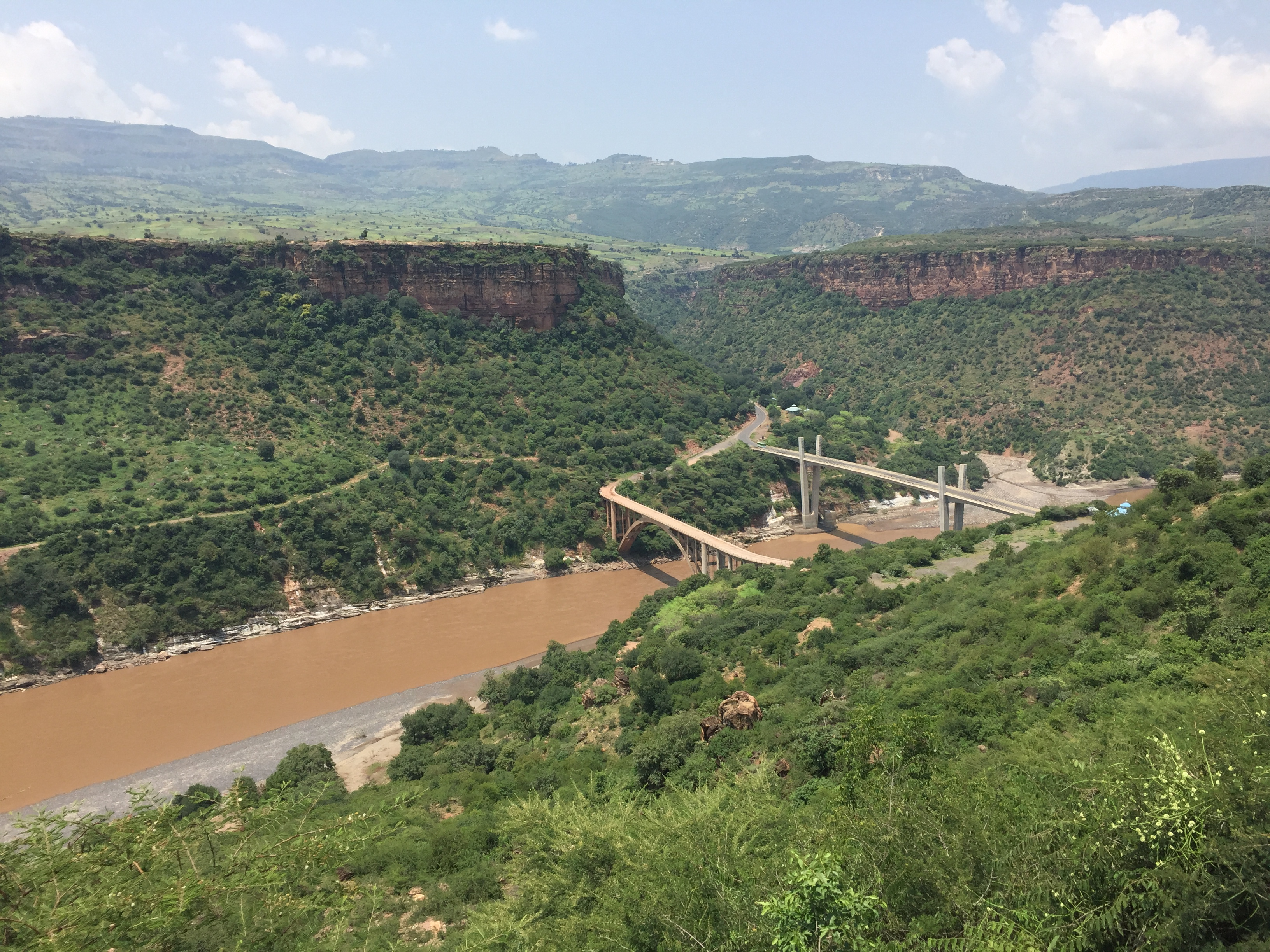 The older (left) Italian-built bridge and recently completed Japanese-built bridge across the Blue Nile Gorge in Ethiopia near the town of Goha Tsion. The Italian bridge is now used by pedestrians, while the Japanese bridge carries Ethiopian National Highway 3 between Addis Ababa and Bahir Dar. The Blue Nile river sets the border between Amhara and Oromia regions.